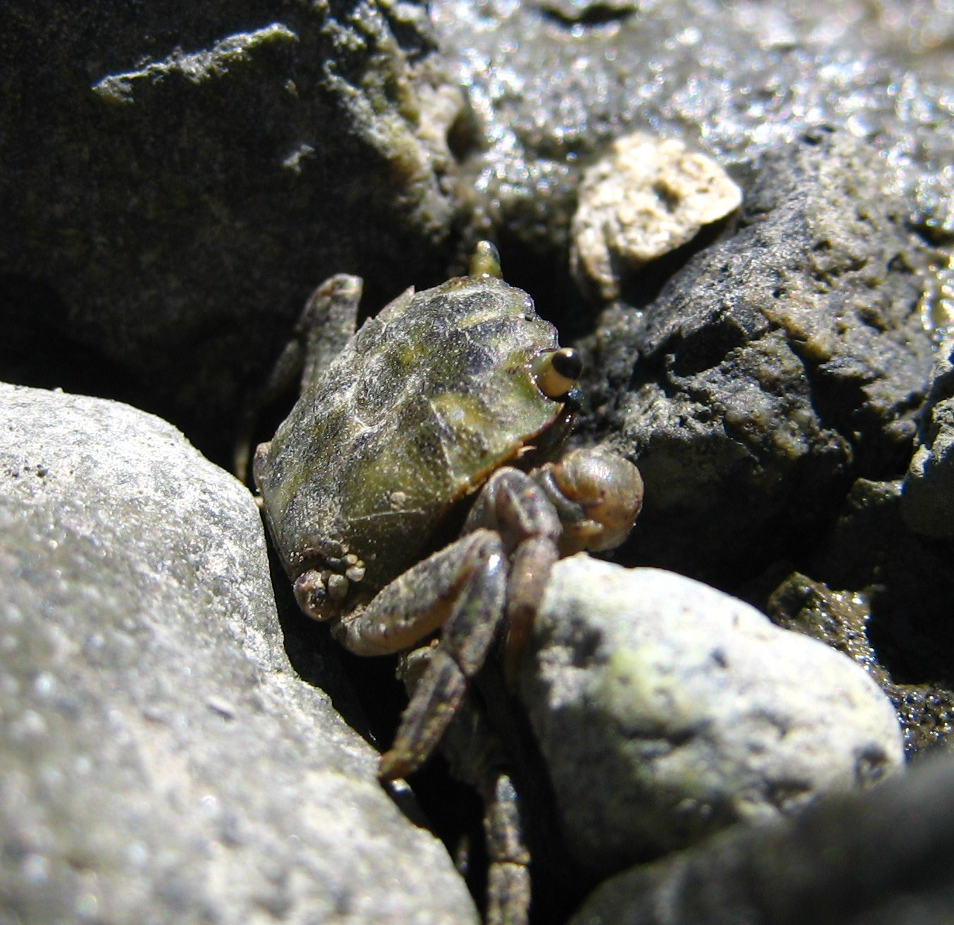 Yellow shore crab Hemigrapsus oregonensis photographed on Orcas Island, WA, USA.